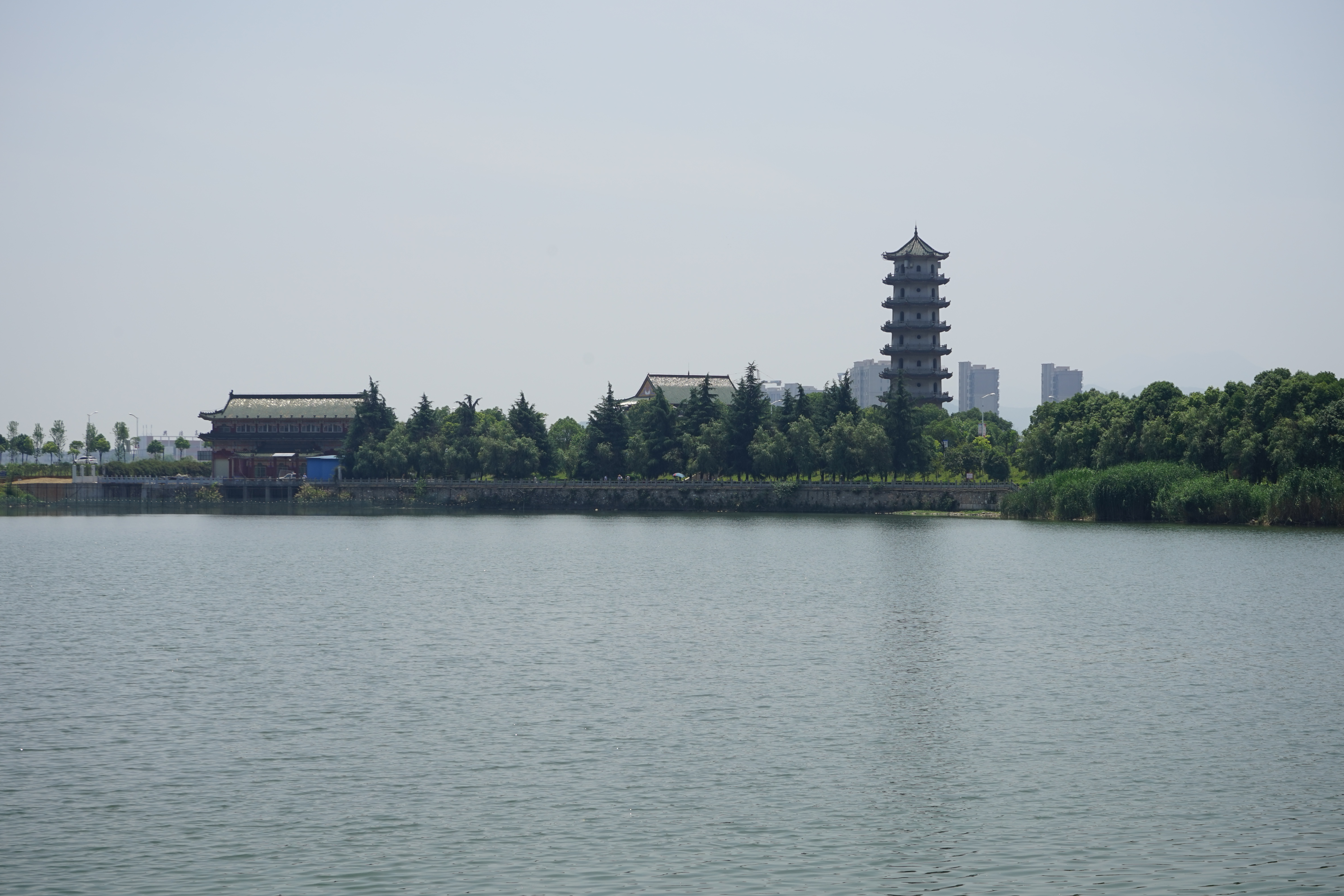 Qinglongshan Pagoda and Red Star Lake. Viewed from Hubin Road.